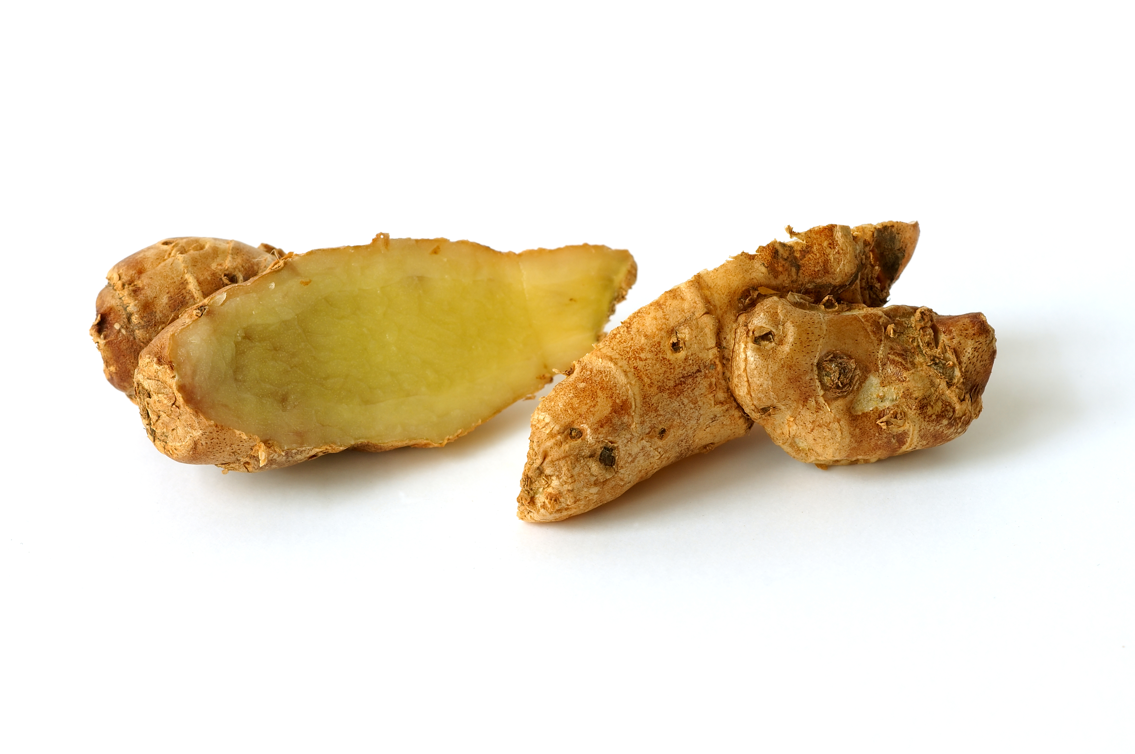 Lesser galangal (Alpinia officinarum) Kenkur Indonesian ingredients cuisine